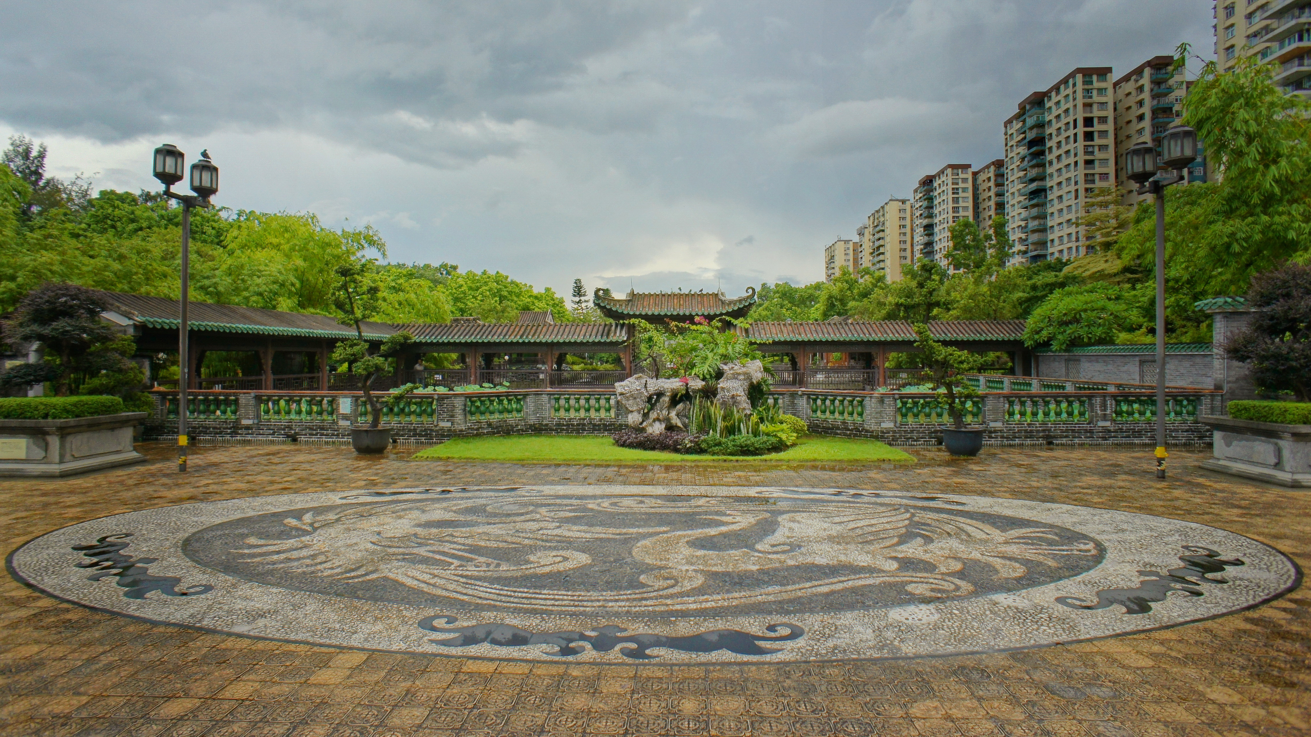 One of the ten scenic spots (an auspicious phoenix motif) of the Lingnan Garden, Lai Chi Kok Park, Hong Kong